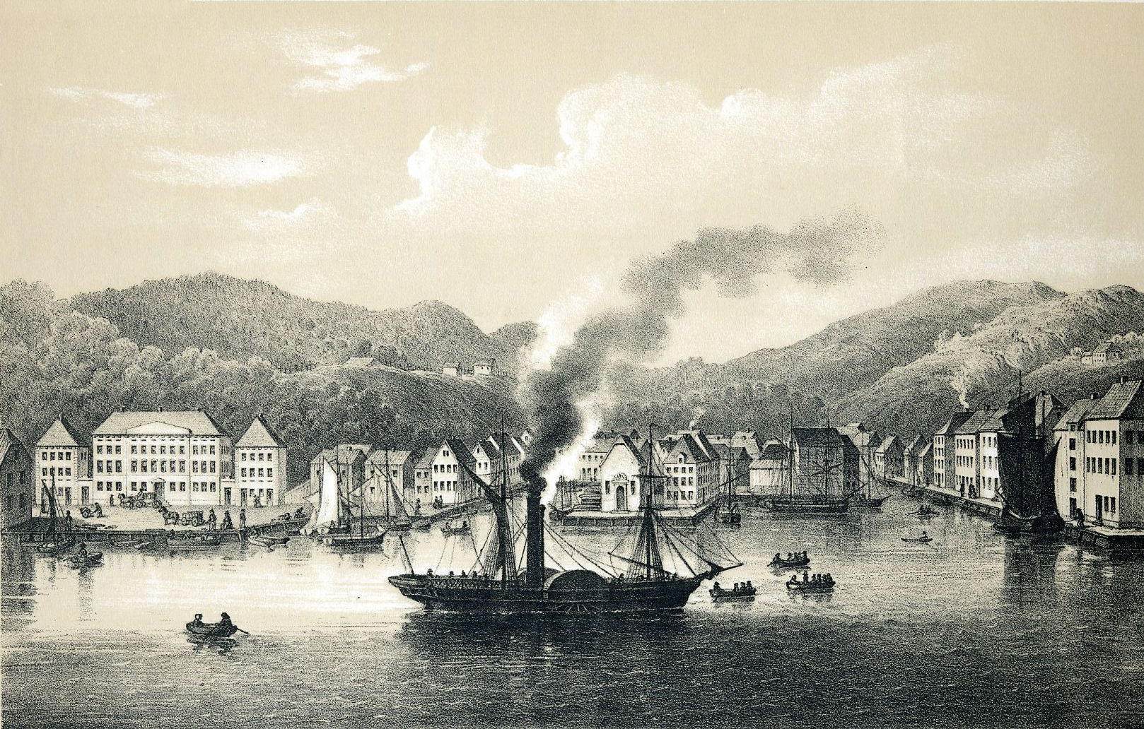 Pictures from the Work "Norge fremstillet i billder" 1848 by Chr. Tønsberg. Arendal, Aust-Agder county, Norway.